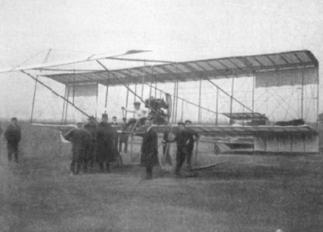 Ágoston Kutassy's plane at Rákosmező